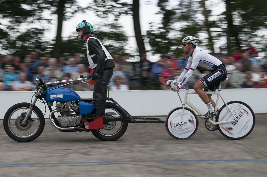 European Championship Stayer 2013 1. Vorlauf,EM,Europameisterschaft der Steher,Florian Fernow,Peter Bäuerlein,Radrennbahn Nürnberg,Radrennen,Radsport,Reichelsdorfer Keller,Stayer,Steher,Steherrennen